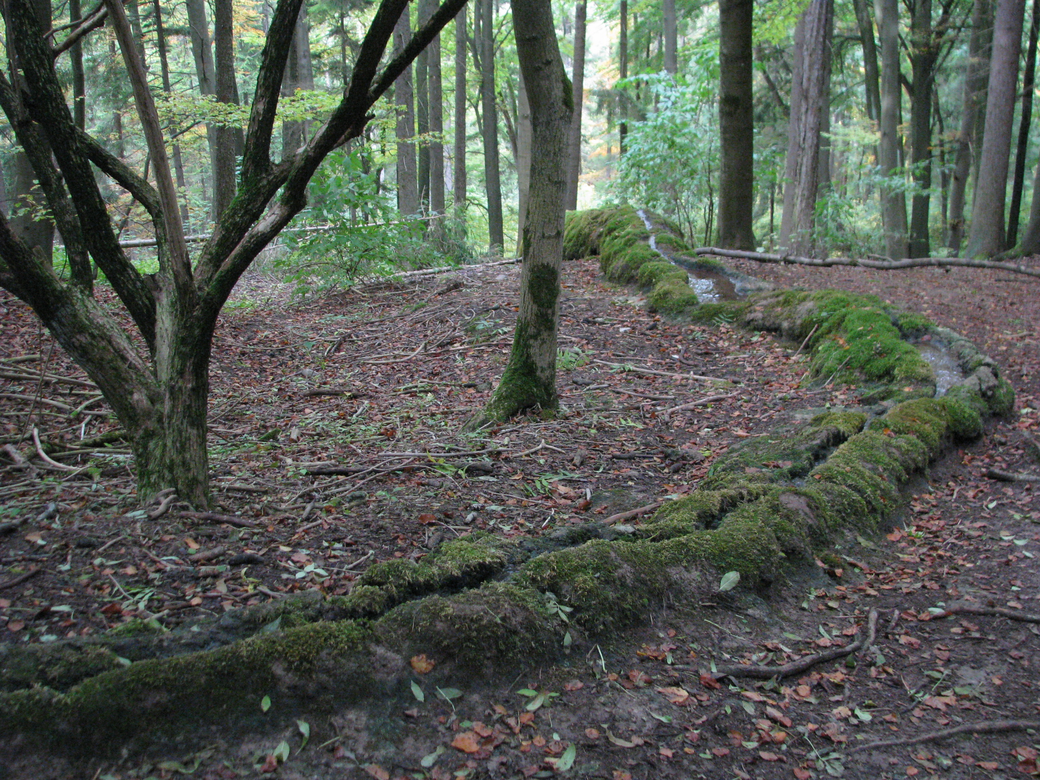 Steinerne Rinne bei Erasbach, Berching, district Neumarkt in der Oberpfalz, Bavaria, Germany